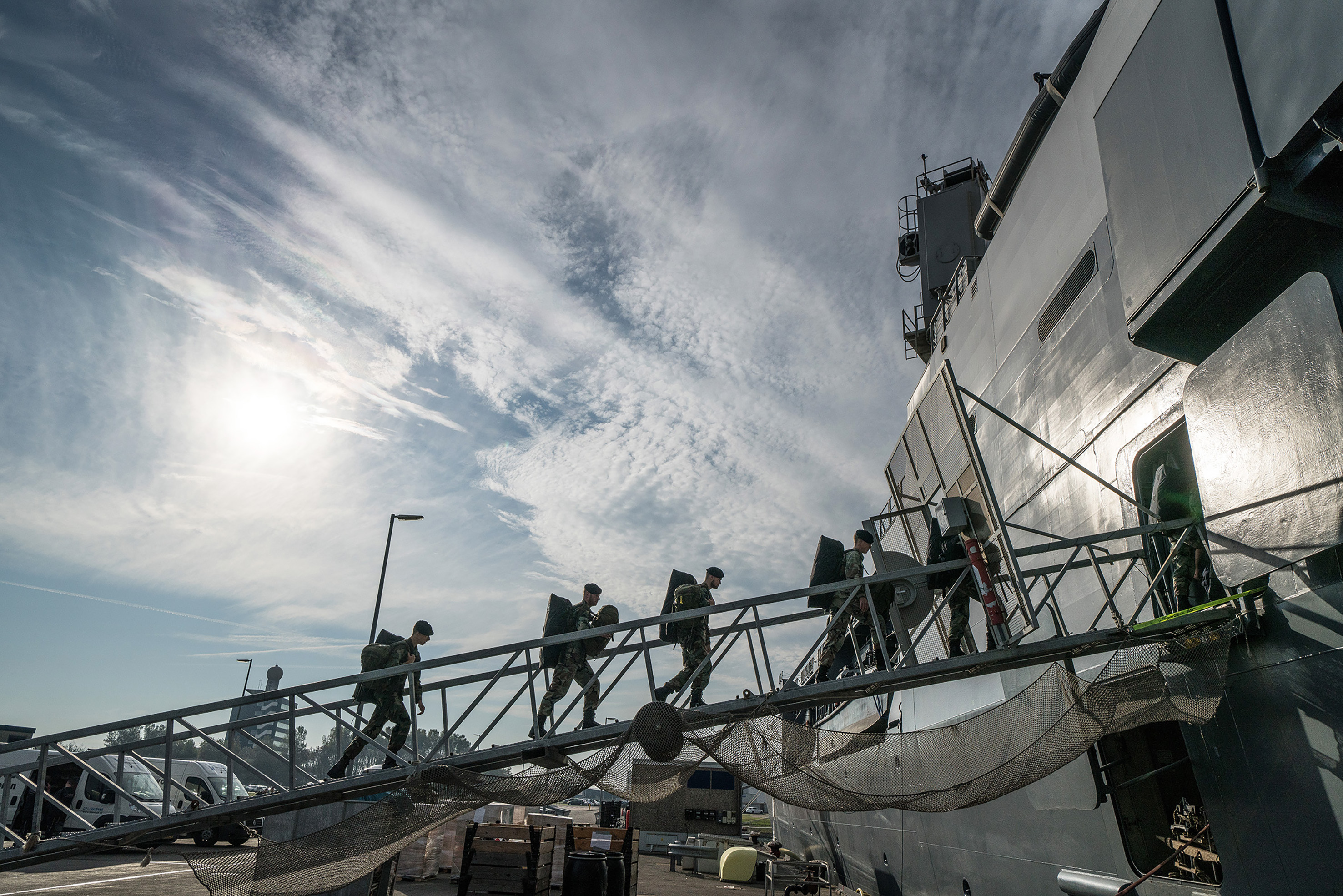 Den Helder, 15 oktober 2018Tijdens het voortraject van Trident Juncture wordt de Zr. Ms. Johan de Witt beladen.